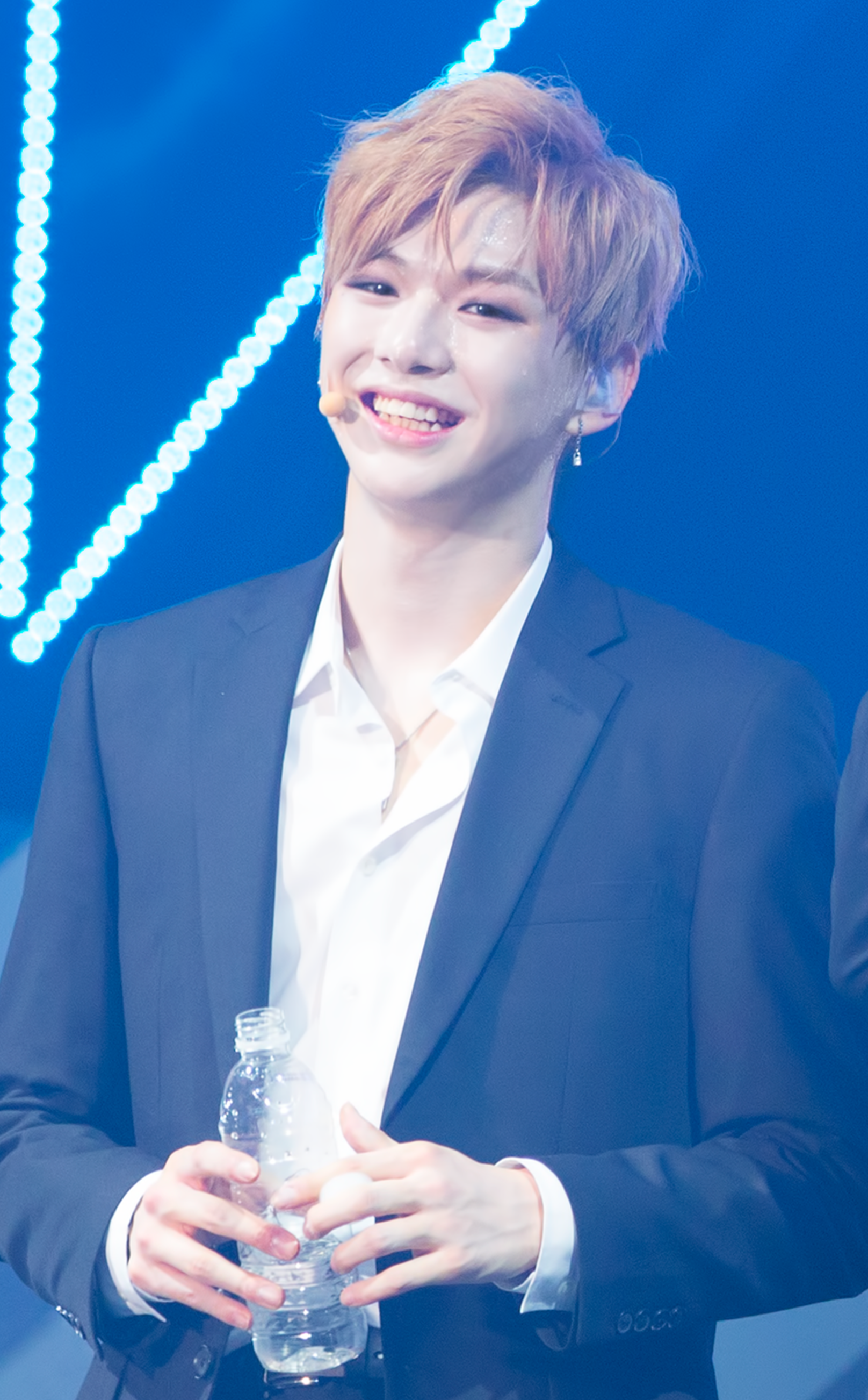 Kang Daniel during the Produce101 Concert on July 2, 2017.